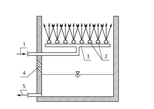 SPRINKL Scheme: 1-aerated water supply pipe; 2-injectors; 3-distribution water pipeline; 4-openings for air flow; 5-Tube for aerated water release